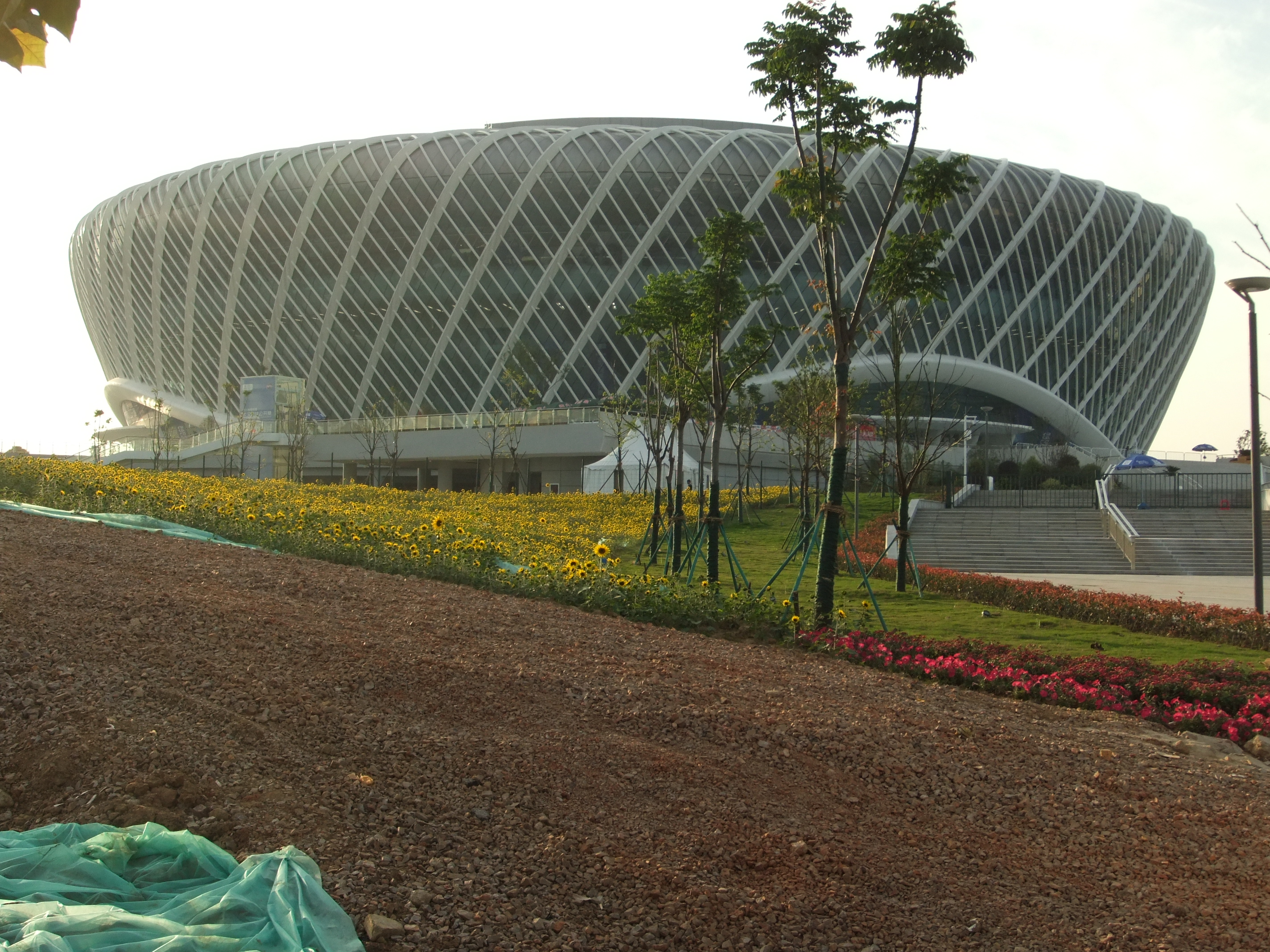 New development in the southeastern part of Wuhan